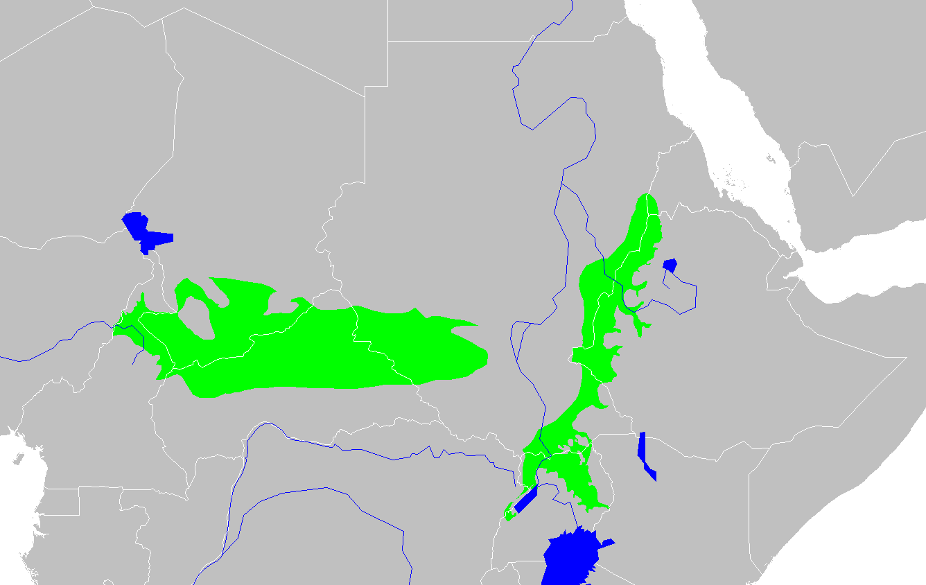 East Sudanian Savanna ecoregion map — of the Tropical and subtropical grasslands, savannas, and shrublands biome. A hot, dry, tropical savanna ecoregion of Northeast Tropical Africa and West-Central Tropical Africa.